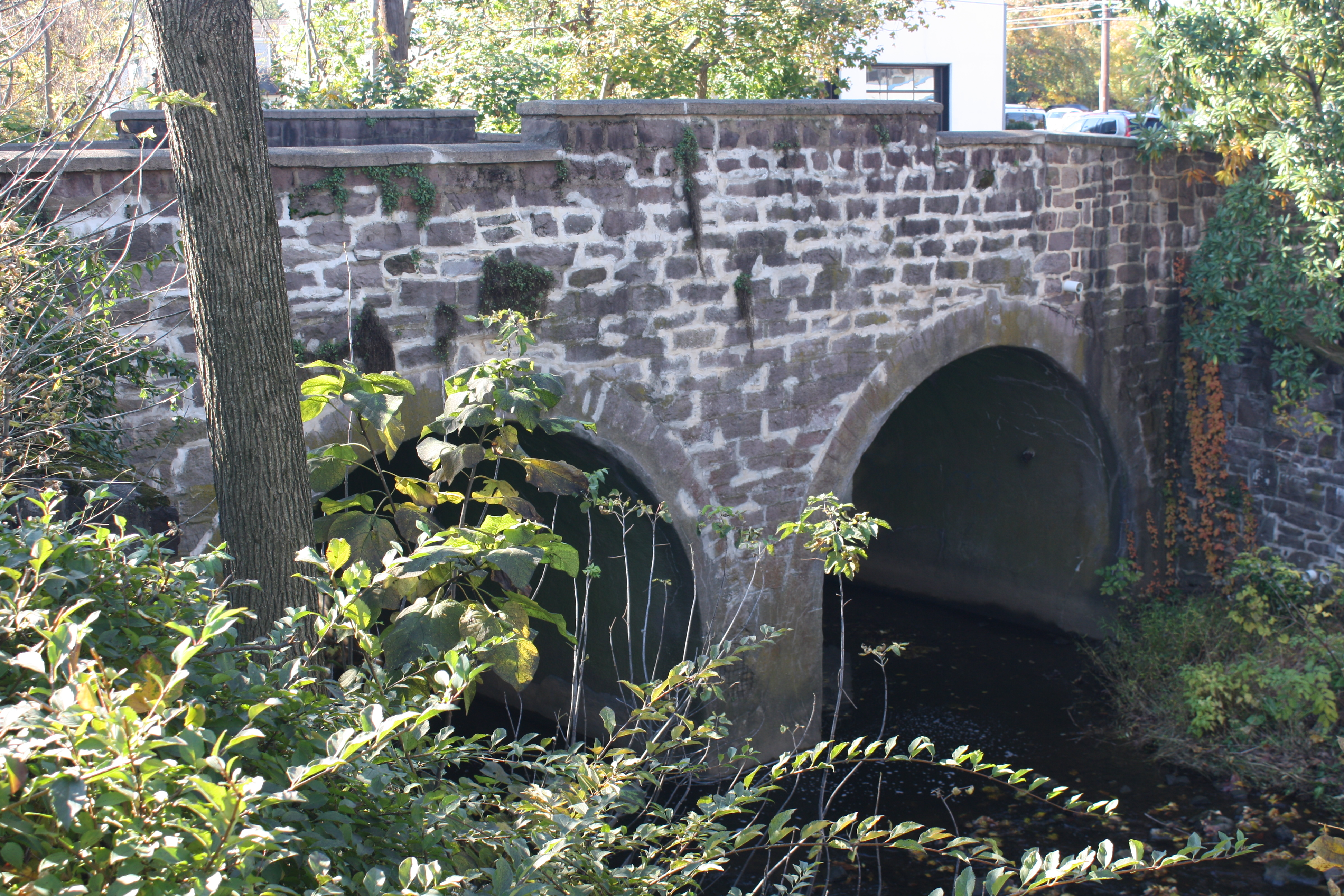 Newtown Creek Bridge is a historic stone arch bridge located at Newtown, Bucks County, Pennsylvania. It spans Newtown Creek. Object location40° 13′ 40″ N, 74° 56′ 20″ W